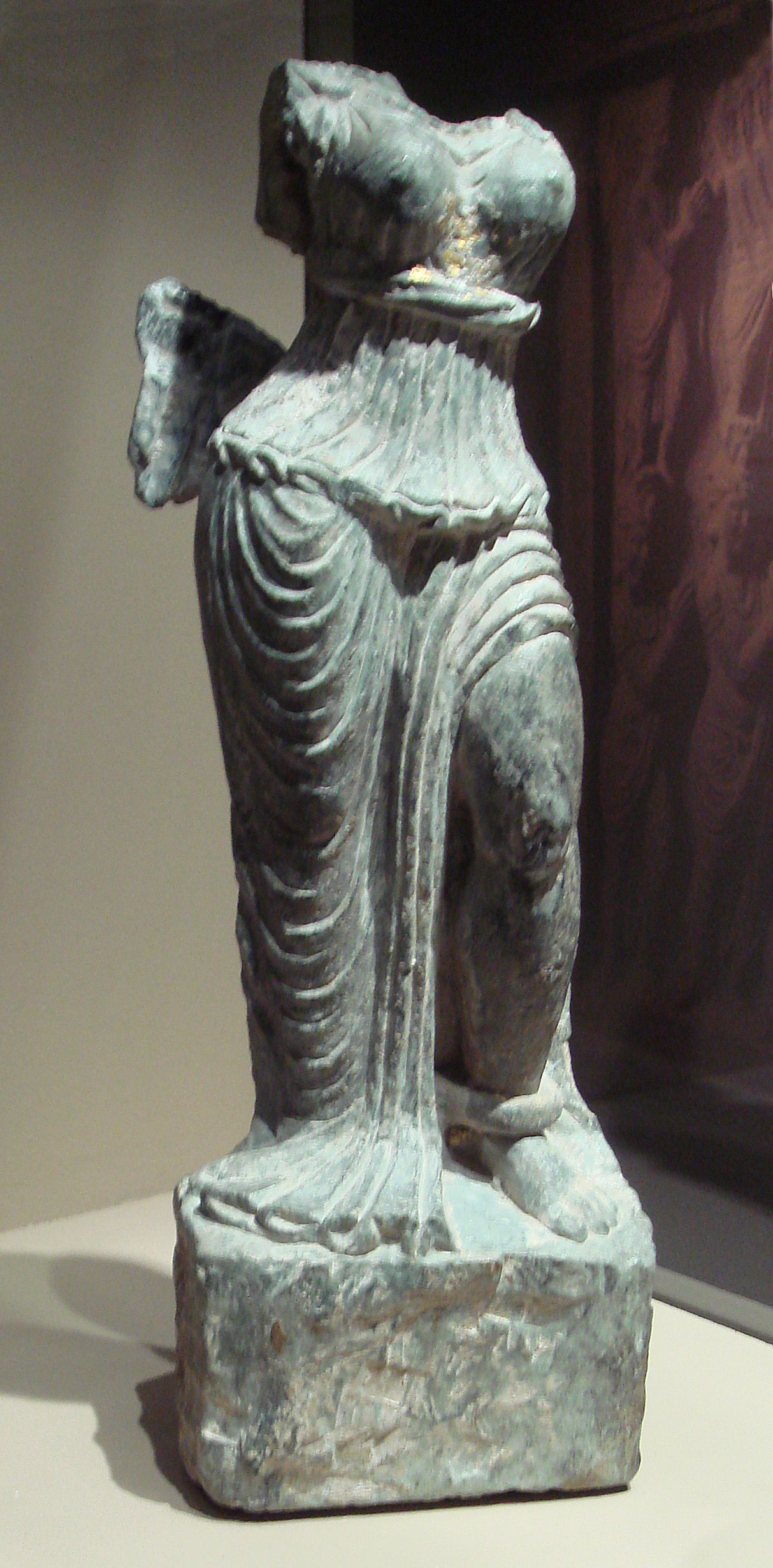 Dharmarajika statuette photographed at Musee Guimet